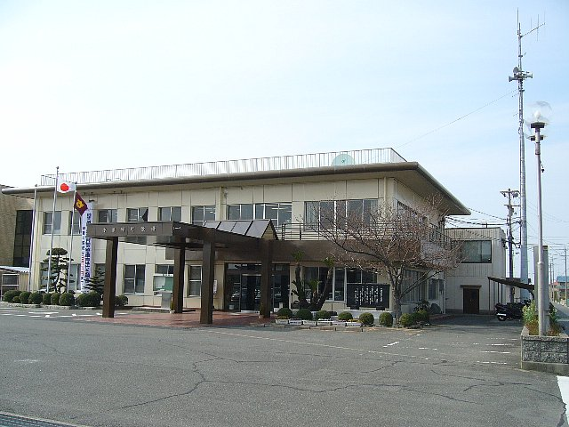 Town Hall of Kisosaki, Mie